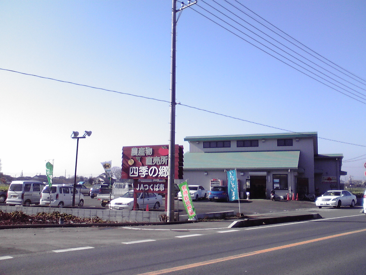 This is a farm stand in Tsukuba, Ibaraki, Japan.